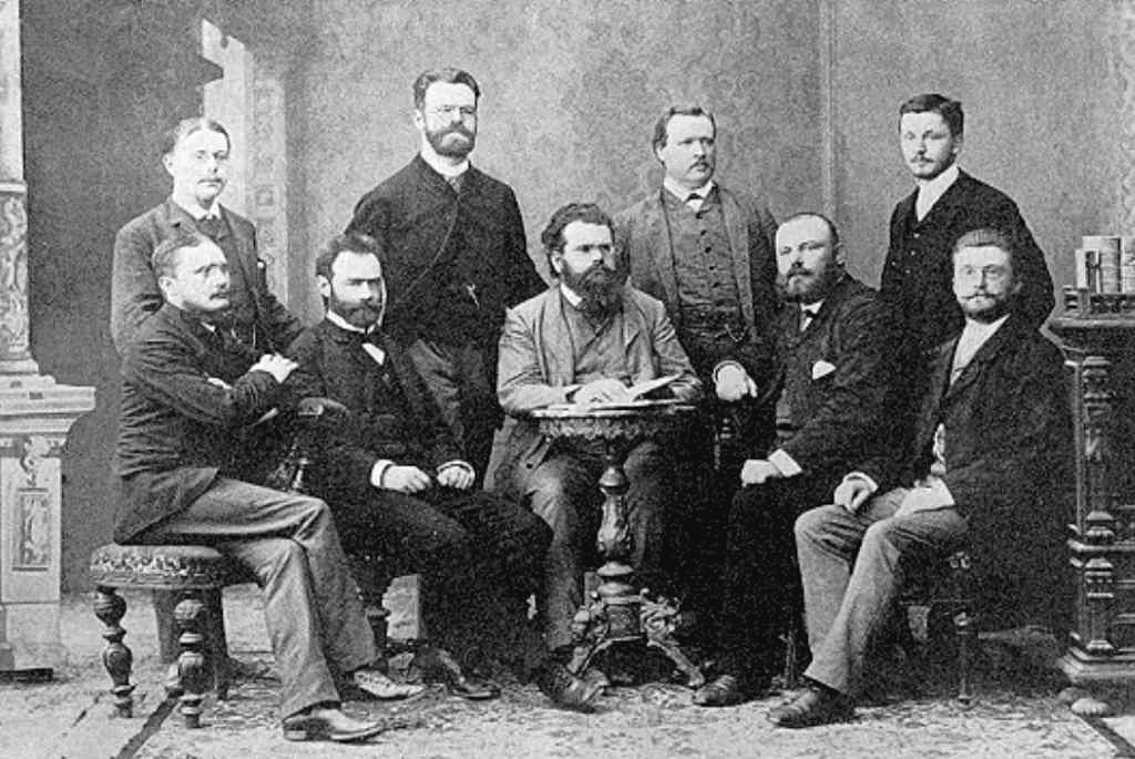 The photo was taken in 1887 and shows (standing, from the left): Walther Nernst (* 25. Juni 1864 in Briesen (Westpreußen); † 18. November 1941 in Zibelle (Oberlausitz)), Doktorand bei Friedrich Kohlrausch (Würzburg), on research tour from Würzburg Heinrich Streintz (* 7. Mai 1848 in Wien; † 11. November 1892), Svante Arrhenius (* 19. Februar 1859 auf Gut Wik bei Uppsala; † 2. Oktober 1927 in Stockholm), on research tour from Würzburg Richard Hiecke, (sitting, from the left): Eduard Aulinger, Albert von Ettingshausen (* 30. März 1850 in Wien; † 9. Juni 1932 in Graz), Ludwig Boltzmann (* 20. Februar 1844 in Wien; † 5. September 1906 in Duino bei Triest), Ignaz Klemenčič (* 6. Februar 1853 in Steinbach bei Treffen; † 5. September 1901 in Treffen), Victor Hausmanninger